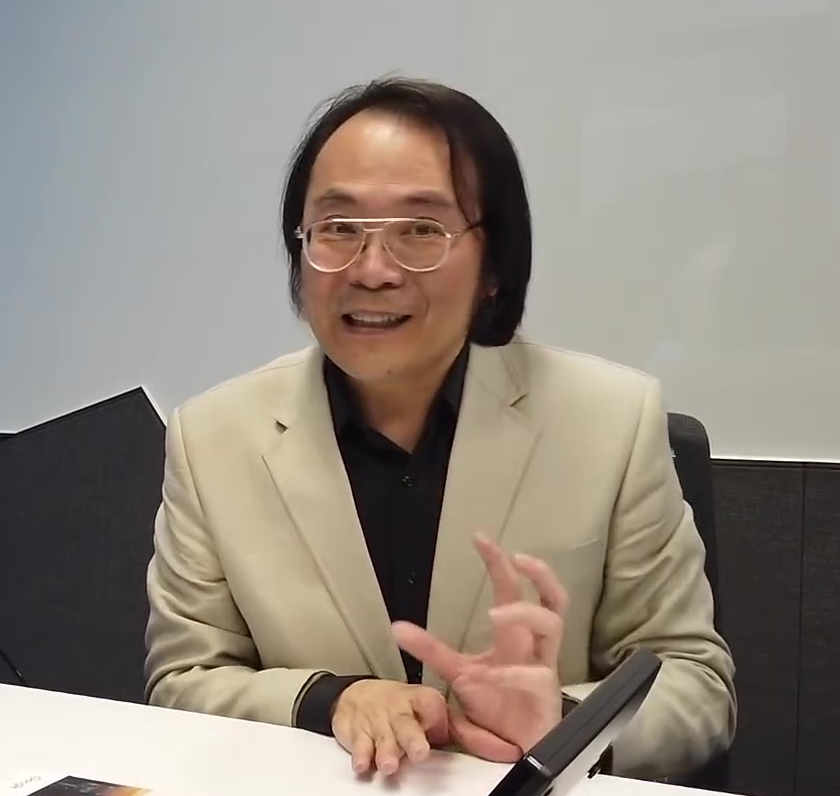 Chien Lee-feng, managing director of Google Taiwan.